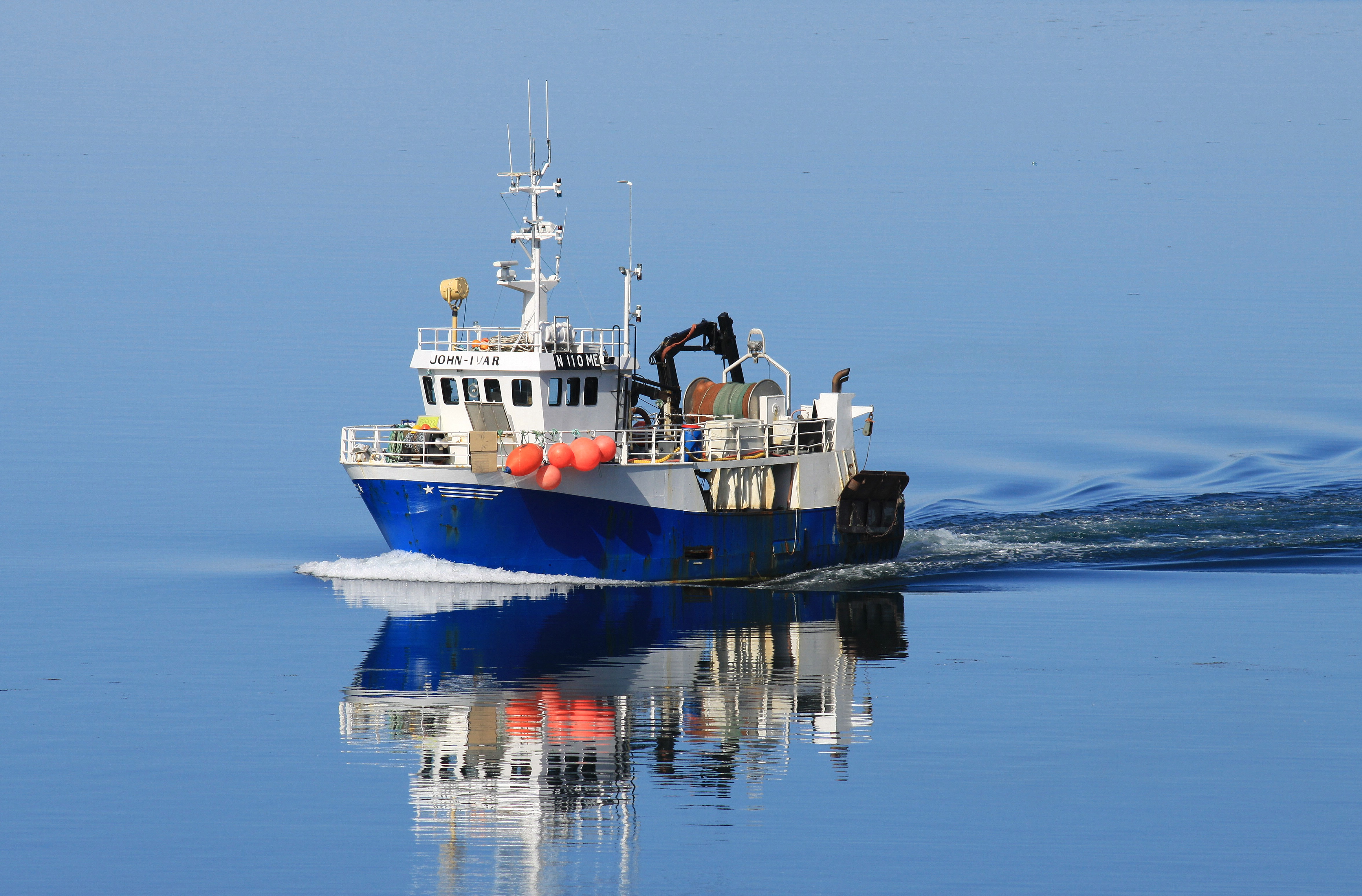 Trawler on the Norwegian coast close to Bodø